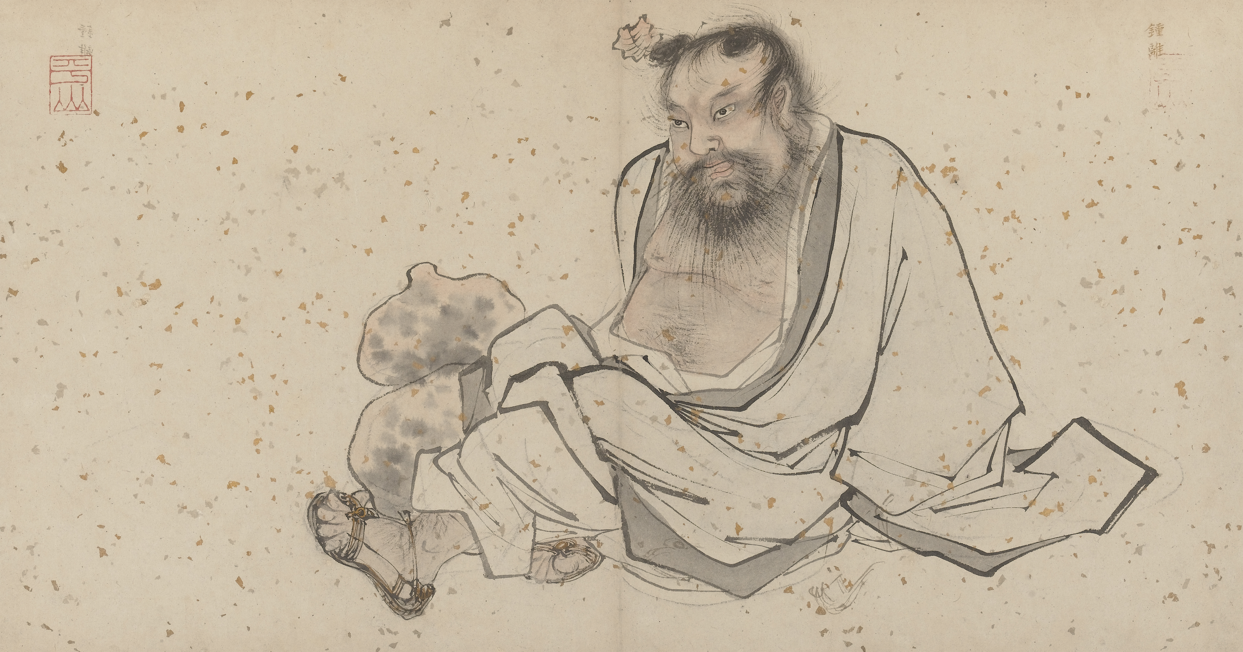 Depiction of the Daoist immortal Zhongli Quan, also known as Han Zhongli